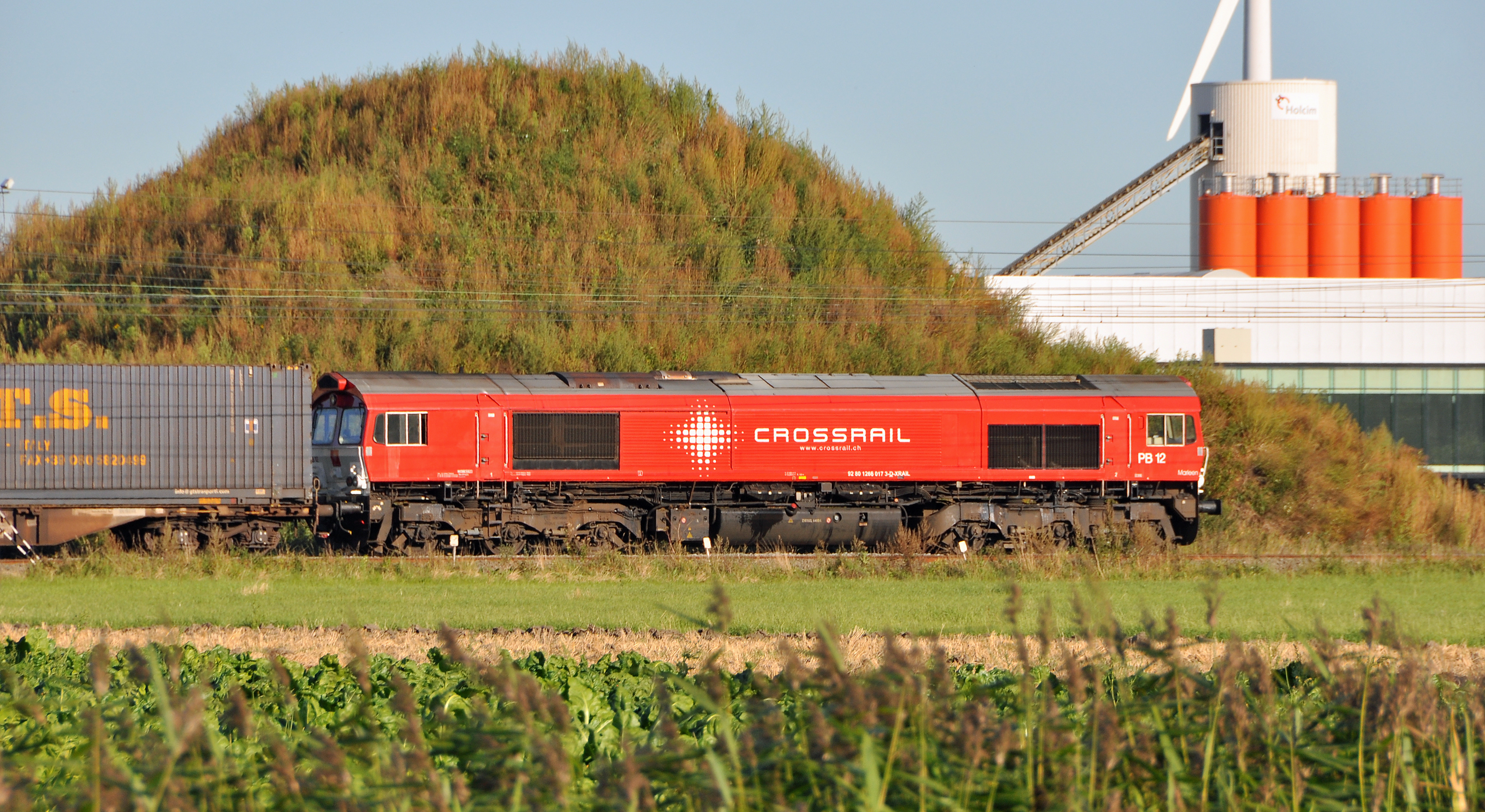 Crossrail's class 66 locomotive #PB12 "Marleen"